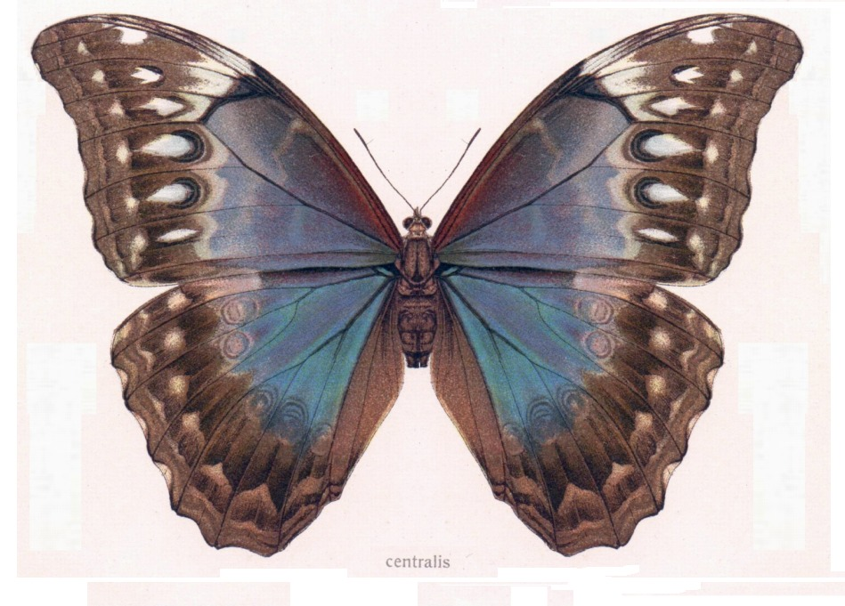 Morpho centralis (=Morpho menelaus amathonte) from Seitz